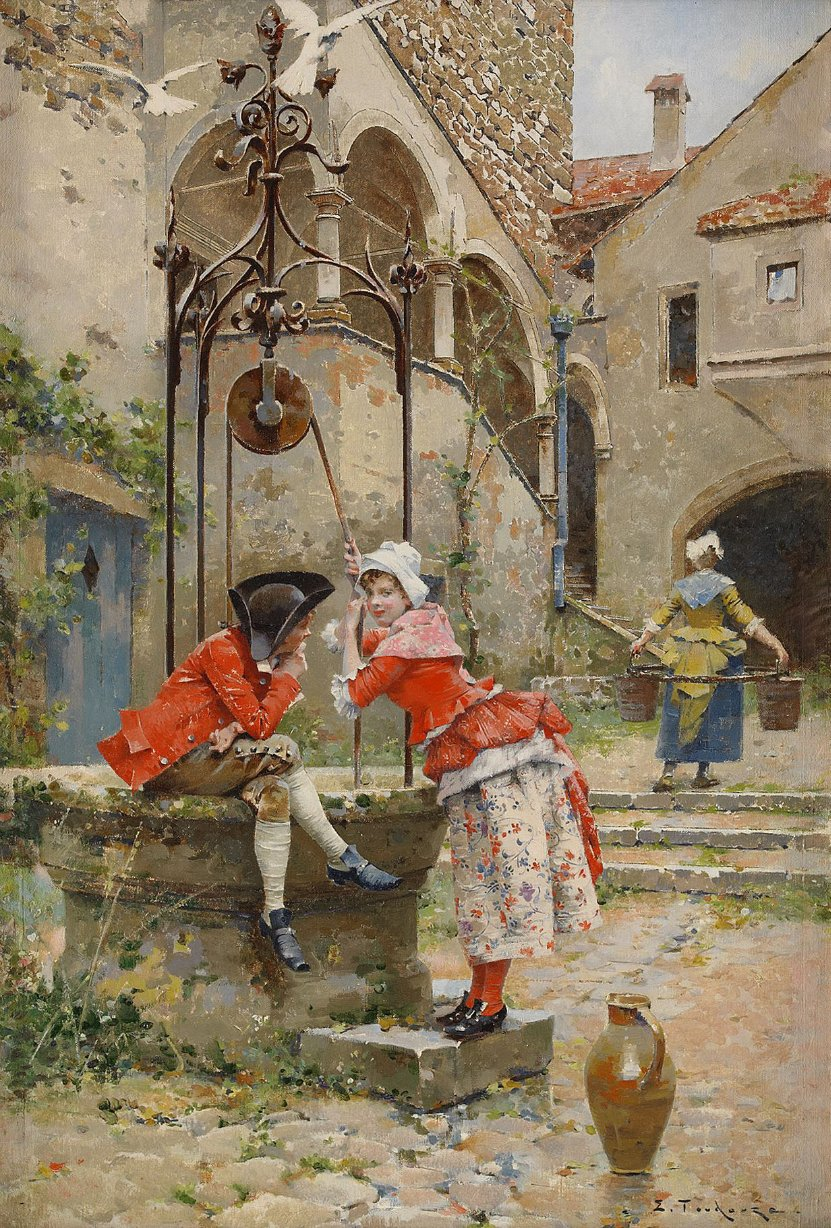 The Well